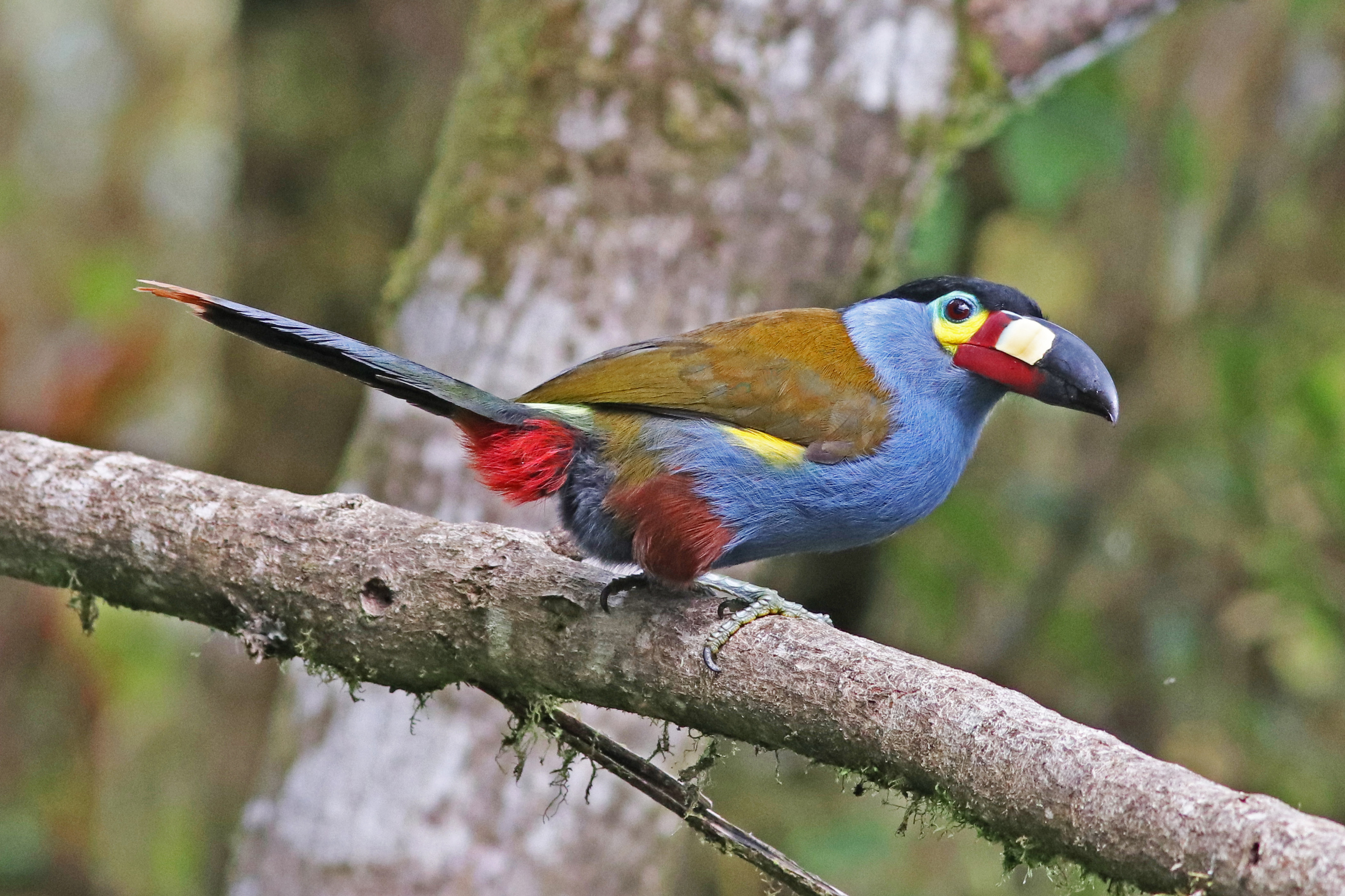 Plate-billed Mountain-Toucan resting on a branch in northwestern Ecuador